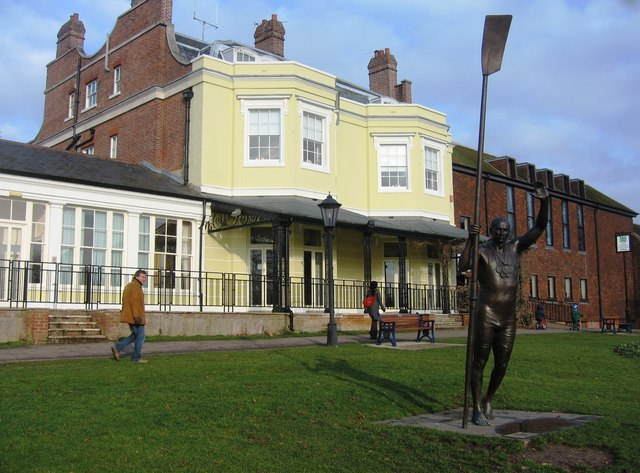 Sir Steve Redgrave. An important member of the local rowing fraternity! The statue stands outside Court Garden House over looking the Thames.